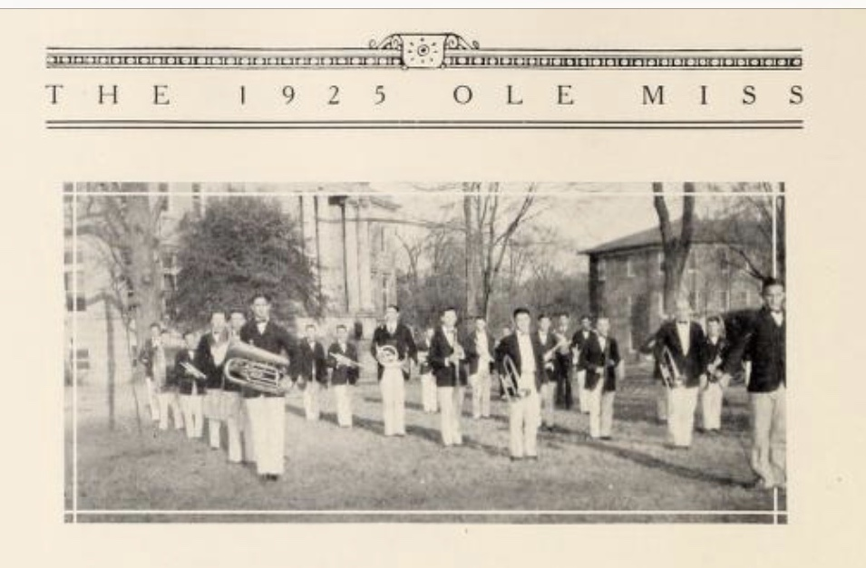 One of the earliest pictures of the Ole Miss Band, featured in the 1925 edition of the Ole Miss Yearbook.